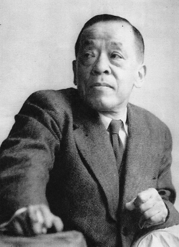 Ichiro Ishikawa